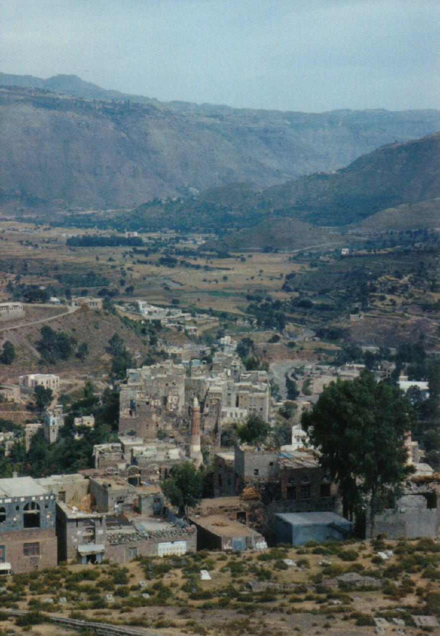 looking down the town of Jibra and its mosque from the hill